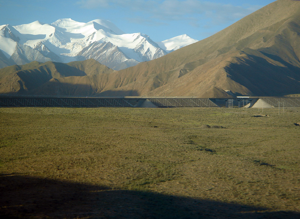 Qinghai to Tibet railway, the highest railway in the world, China